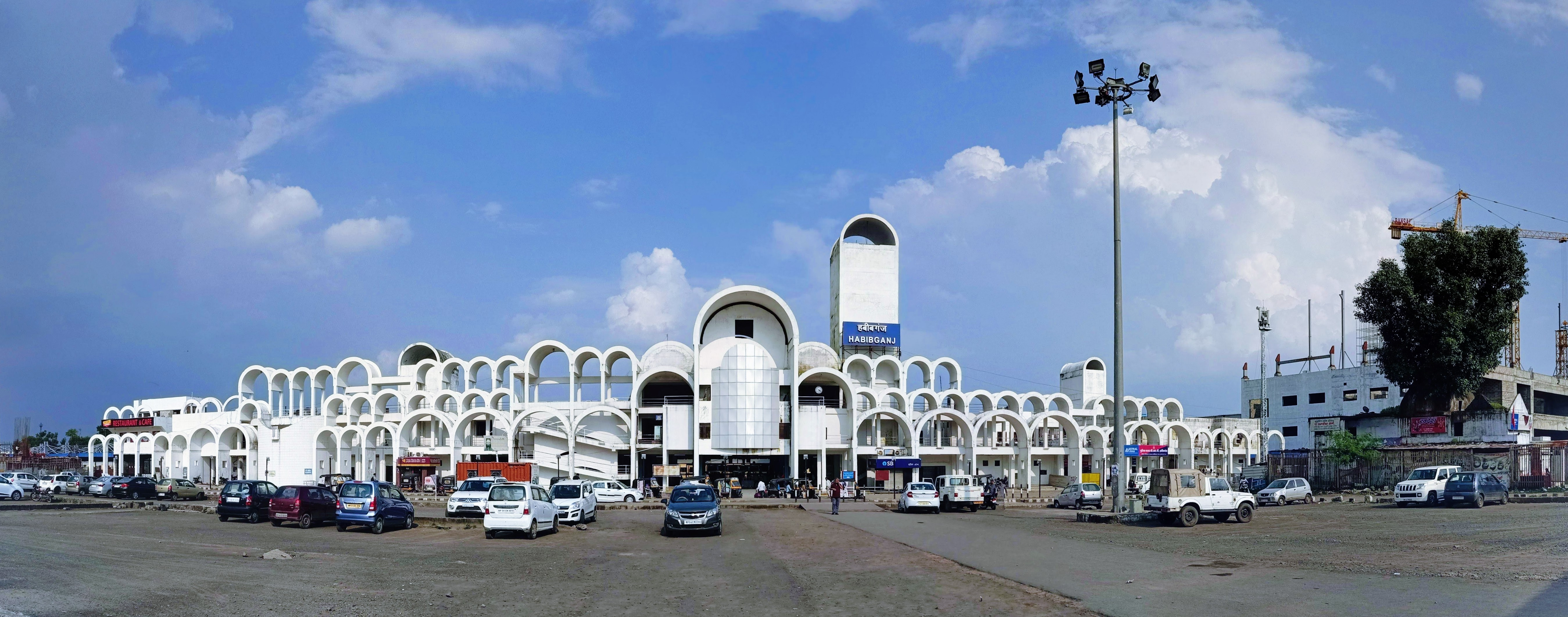 Habibgunj Railway Station (HBJ) - PANORAMA view